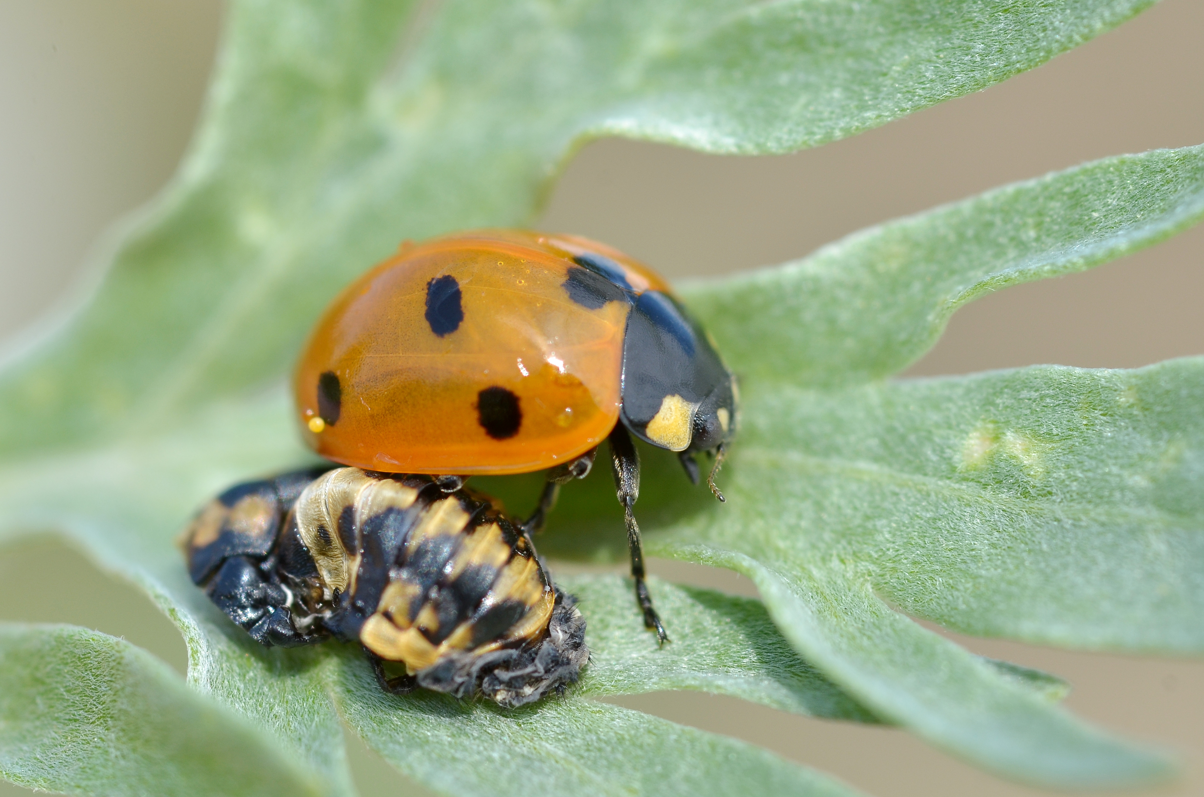 The orange colour (not red) is typical of these new generation individuals. The typical red coloration will only appear completely after the winter.